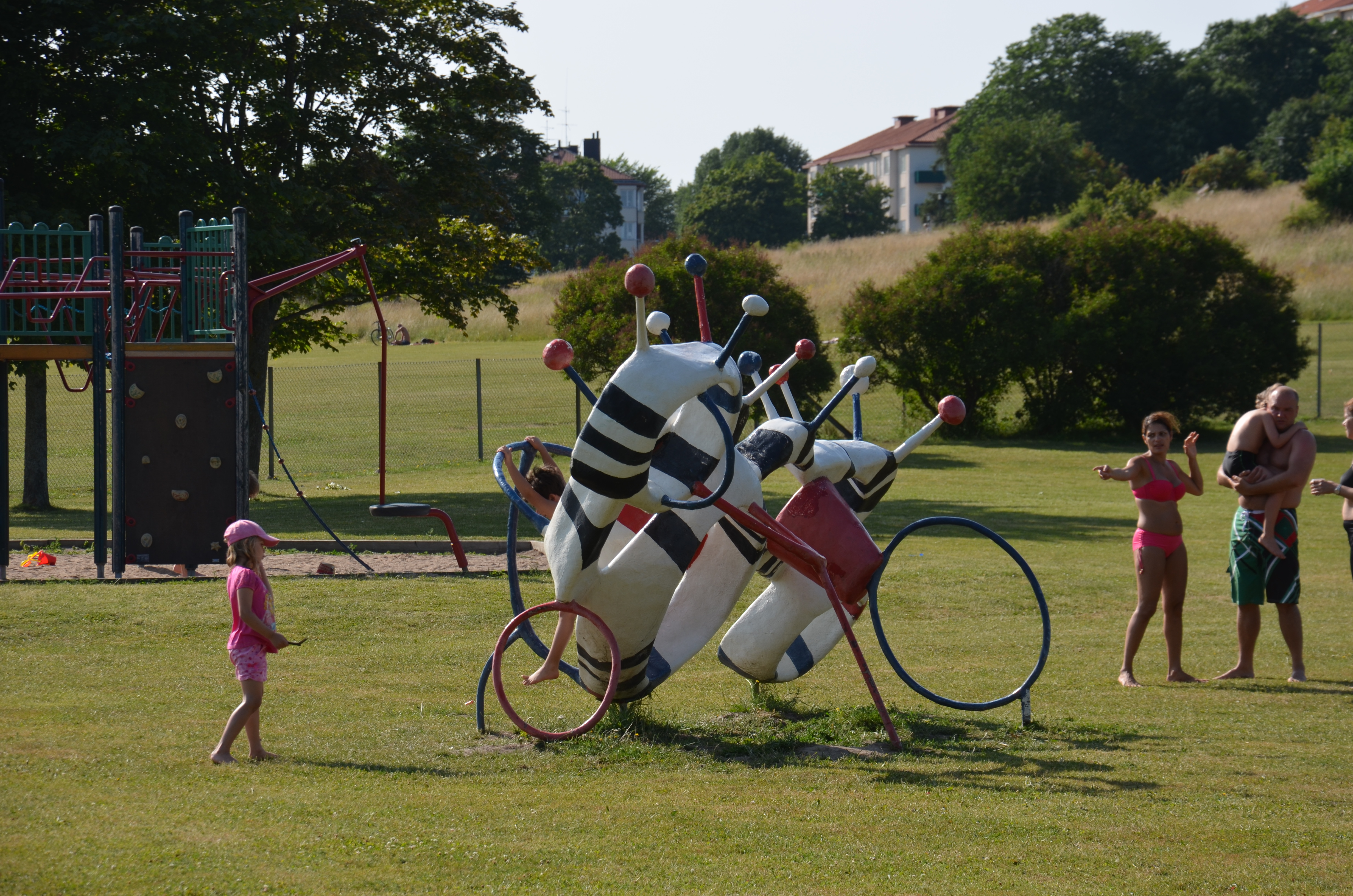 Ringormen av Bernt Helleberg på Kampementsbadet på Gäredet i Stockholm